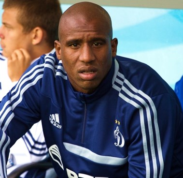 Douglas 2013